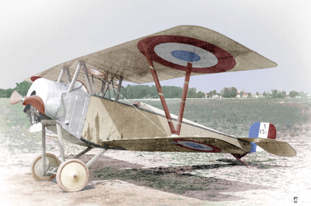 Colourized photo of Nieuport 10